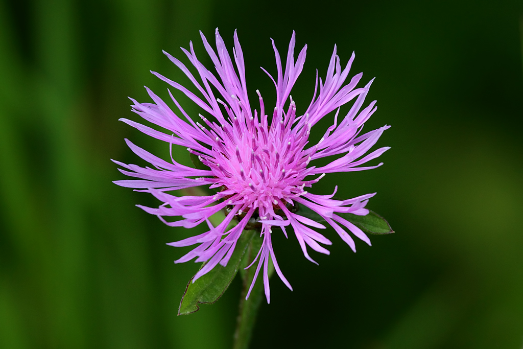 Spotted knapweed is an invasive weed. The weed is a prolific seed producer with 1000 or more seeds per plant. Seed remains viable in the soil five years or more, so infestations may occur a number of years after vegetative plants have been eliminated. Spotted knapweed has few natural enemies and is consumed by livestock only when other vegetation is unavailable. The plant releases a toxin that reduces growth of forage species. Areas heavily infested with spotted knapweed often must be reseeded once the plant is controlled. Historical records indicate that spotted knapweed was introduced from Eastern Europe into North America in the early 1900s as a contaminant in crop seed. It now infests several million acres of grazing land in the northwestern United States and Canada. Reference Observed in a Canadian Provincial park at Lake Lakelse